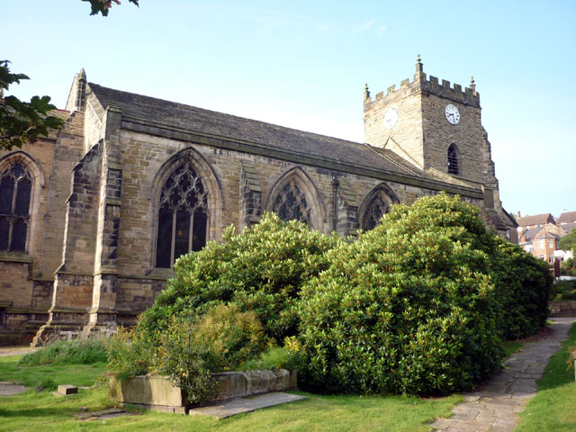 Nave and west tower of St Thomas the Martyr's parish church, Up Holland, Lancashire, England, seen from the northeast